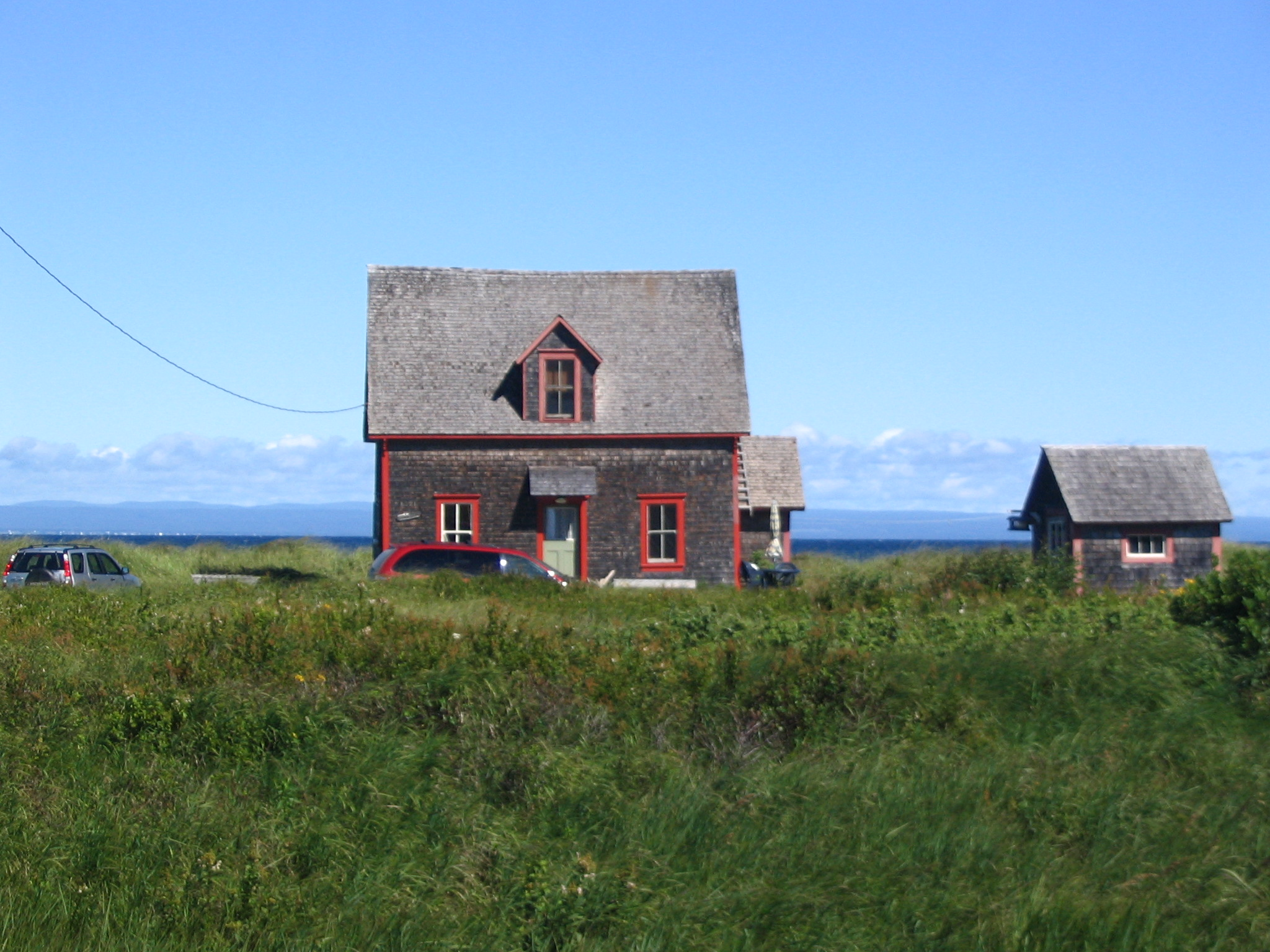 An old house in Anse-Bleue, New Brunswick, Canada